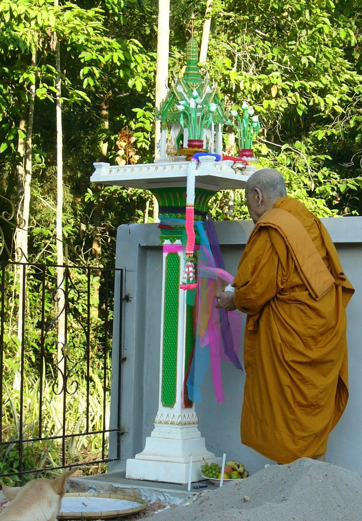 Phi Ban with monk (Thailand)